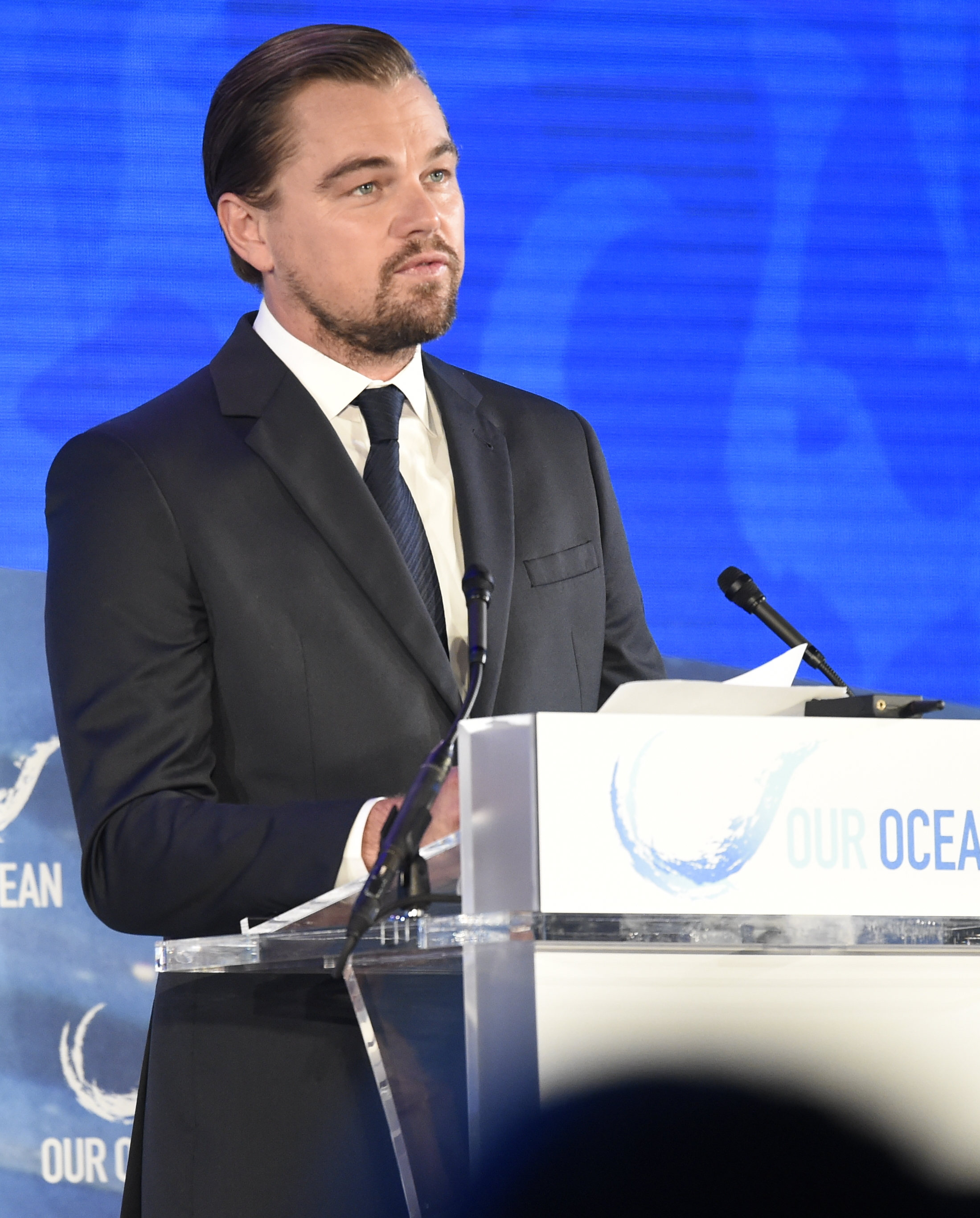 U.S. Secretary of State John Kerry watches actor and environmentalist Leonardo DiCaprio on September 15, 2016, as he addressed the third Our Ocean Conference at the U.S. Department of State in Washington, D.C. [State Department Photo/ Public Domain]